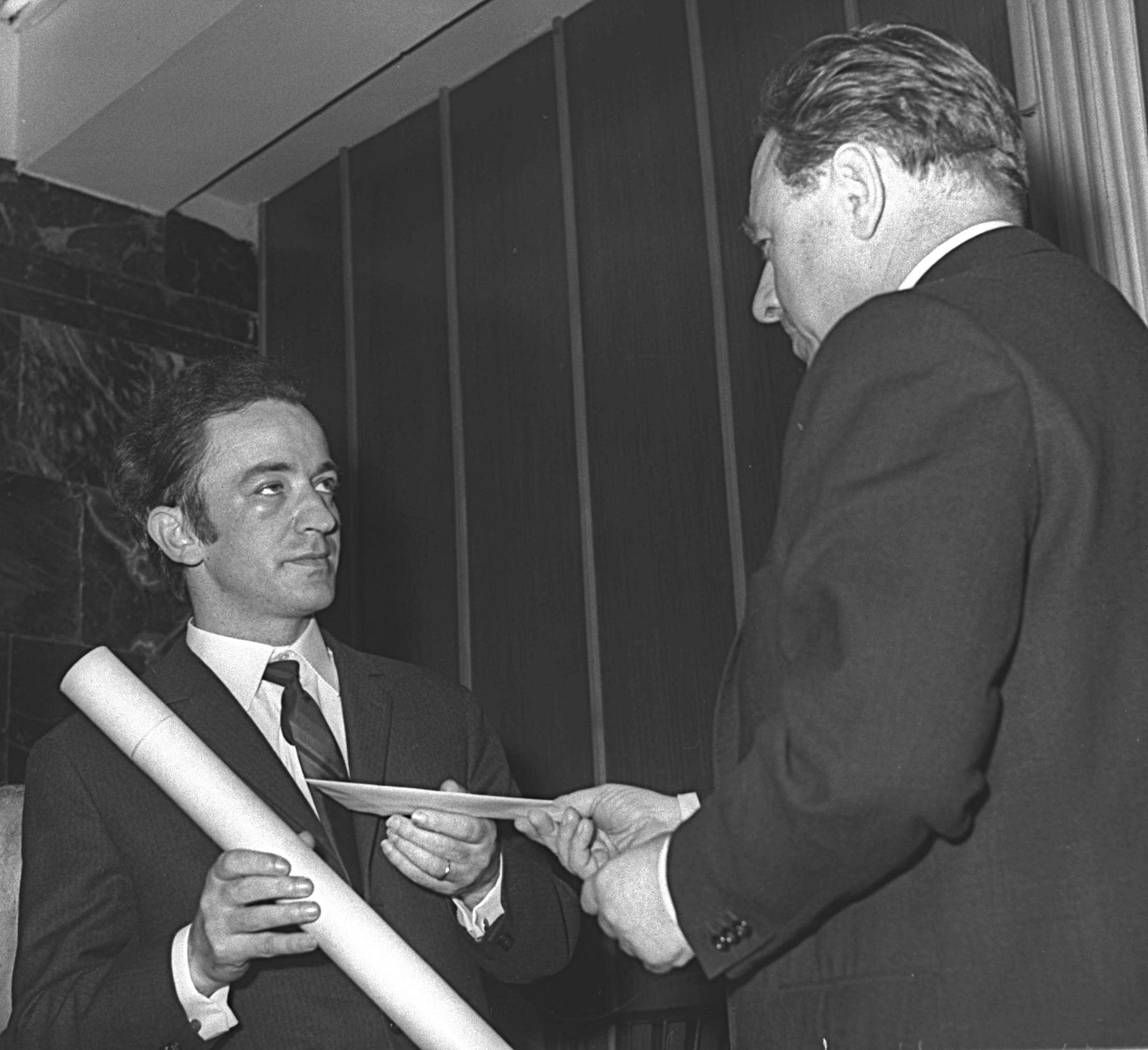 JERUSALEM MAYOR TEDDY KOLLEK (R) HANDING FRENCH AUTHOR ANDRE SCHWARTZ BART THE JERUSALEM PRIZE FOR LITERATURE 1967, AT THE JERUSALEM MUNICIPALITY.